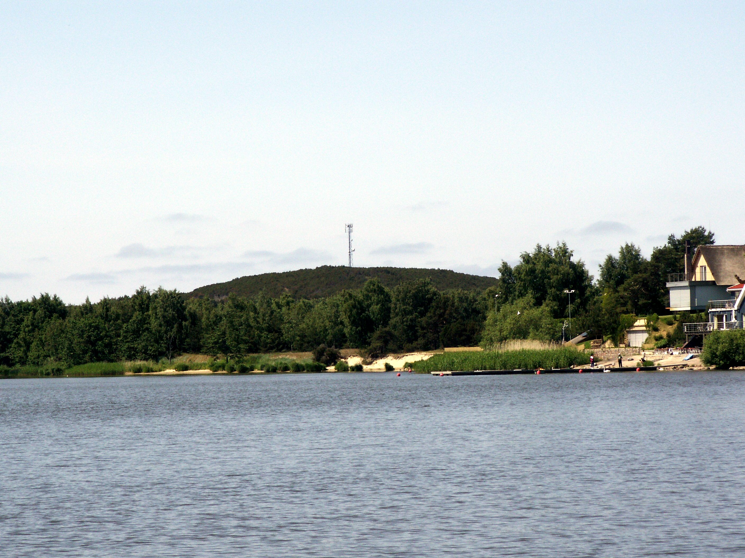 Pervalka, Skirpstas dune, 51,5 m, Neringa, Lithuania